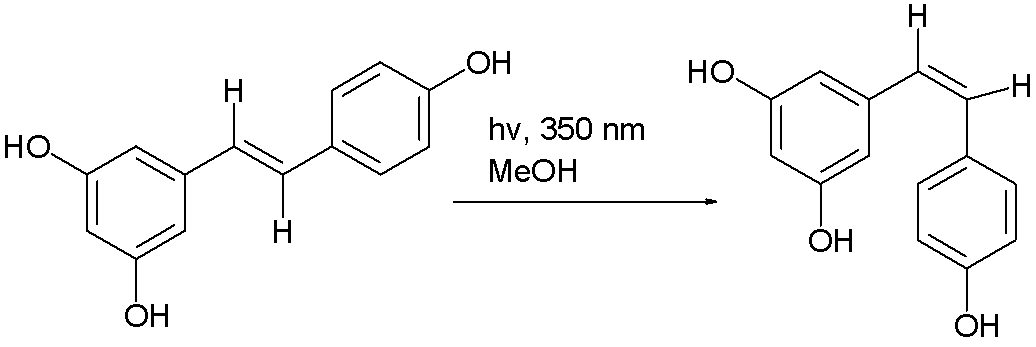 Rasveratrol isomerization